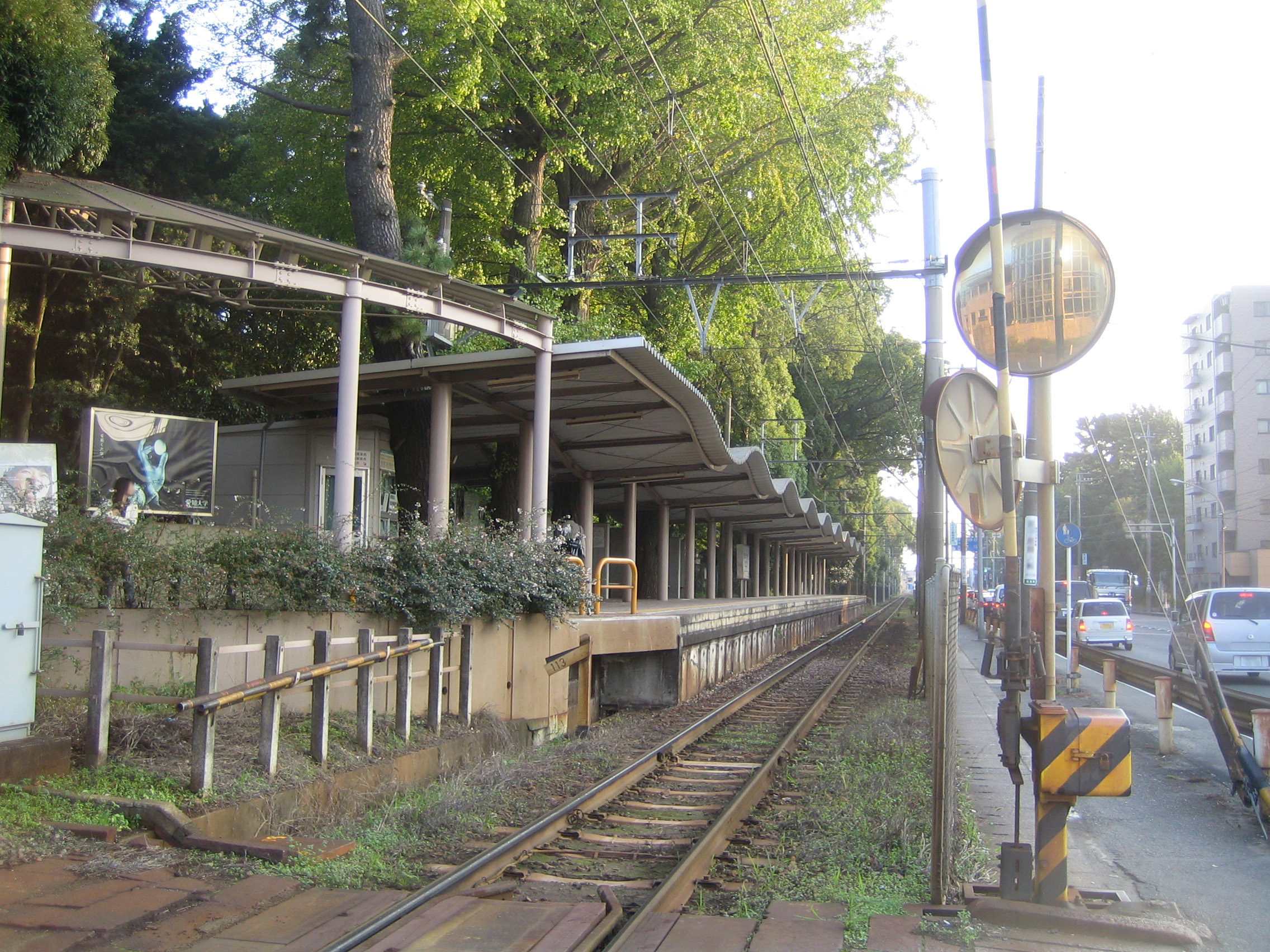 Aichi Daigaku-mae Station (愛知大学前駅), at Kitaoka, Toyohashi, Aichi, Japan